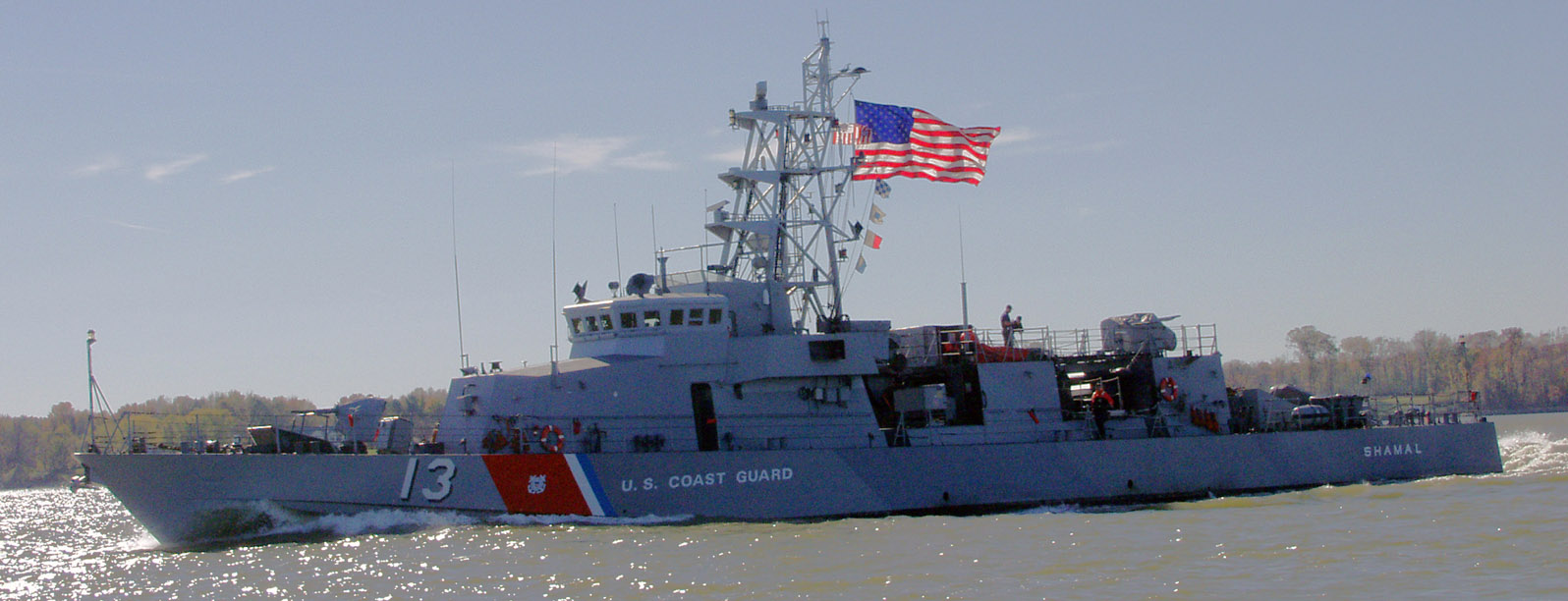 DAHLGREN, Va. (Nov. 6, 2004) Coast Guard Cutter Shamal (WPC-13) patrols the Potomac River near the Naval Surface Warfare Center in Dahlgren, VA. On Sept. 29, 2004, USS Shamal was transferred to the U.S. Coast Guard in Little Creek, VA and placed in Commission Special status. After a two-month dockside availability at Integrated Support Command Portsmouth, Shamal will make its transit to her new homeport of Pascagoula, MS., where it will be officially commissioned on December 6, 2004. Shamal's planned major missions will be alien migrant and drug interdiction operations within the D7 and D8 AORs.